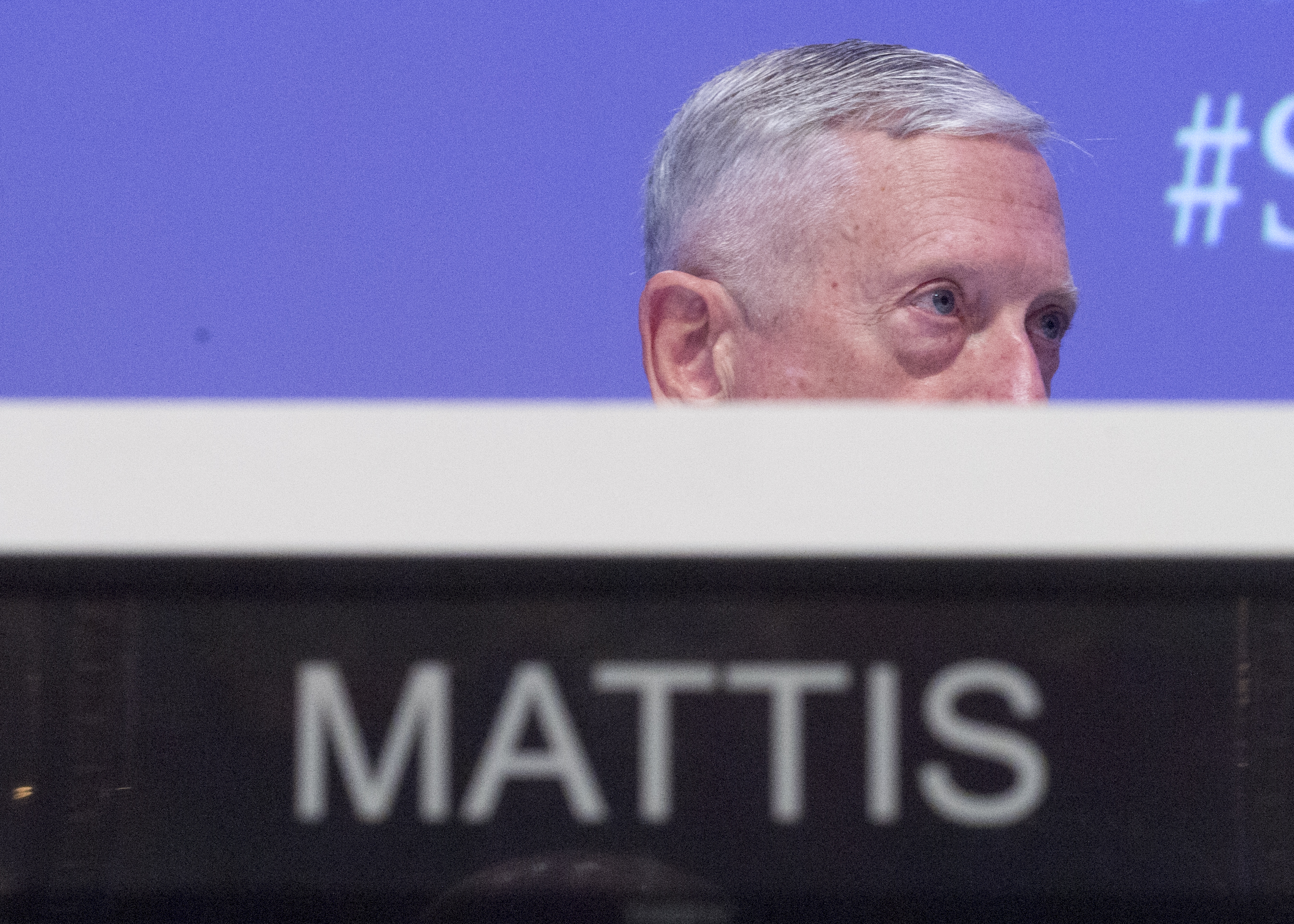 Defense Secretary Jim Mattis and John Chipman, director of the International Institute for Strategic Studies, speak before the secretary delivers remarks on U.S strategy in the Asia-Pacific region at the 16th Shangri-La Dialogue Asia security conference in Singapore, June 3, 2017. Mattis is in Singapore to attend the Shangri-La Dialogue, an Asia-focused defense summit, where he will meet with regional allies and counterparts to discuss common security issues. (Dept. of Defense photo by Navy Petty Officer 2nd Class Dominique A. Pineiro/Released)